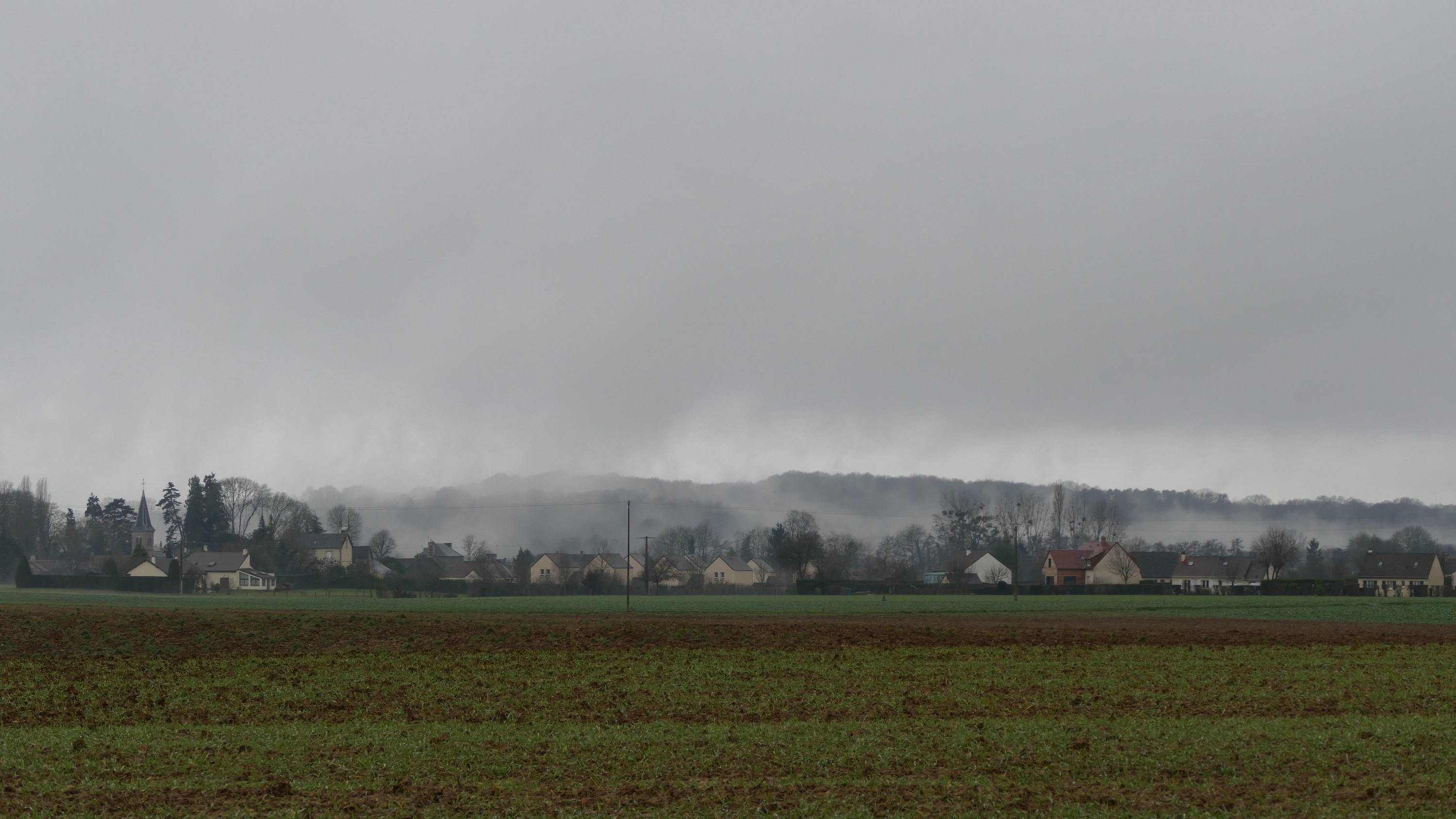 Cuissai : the village in the fog (Orne, Normandie, France).